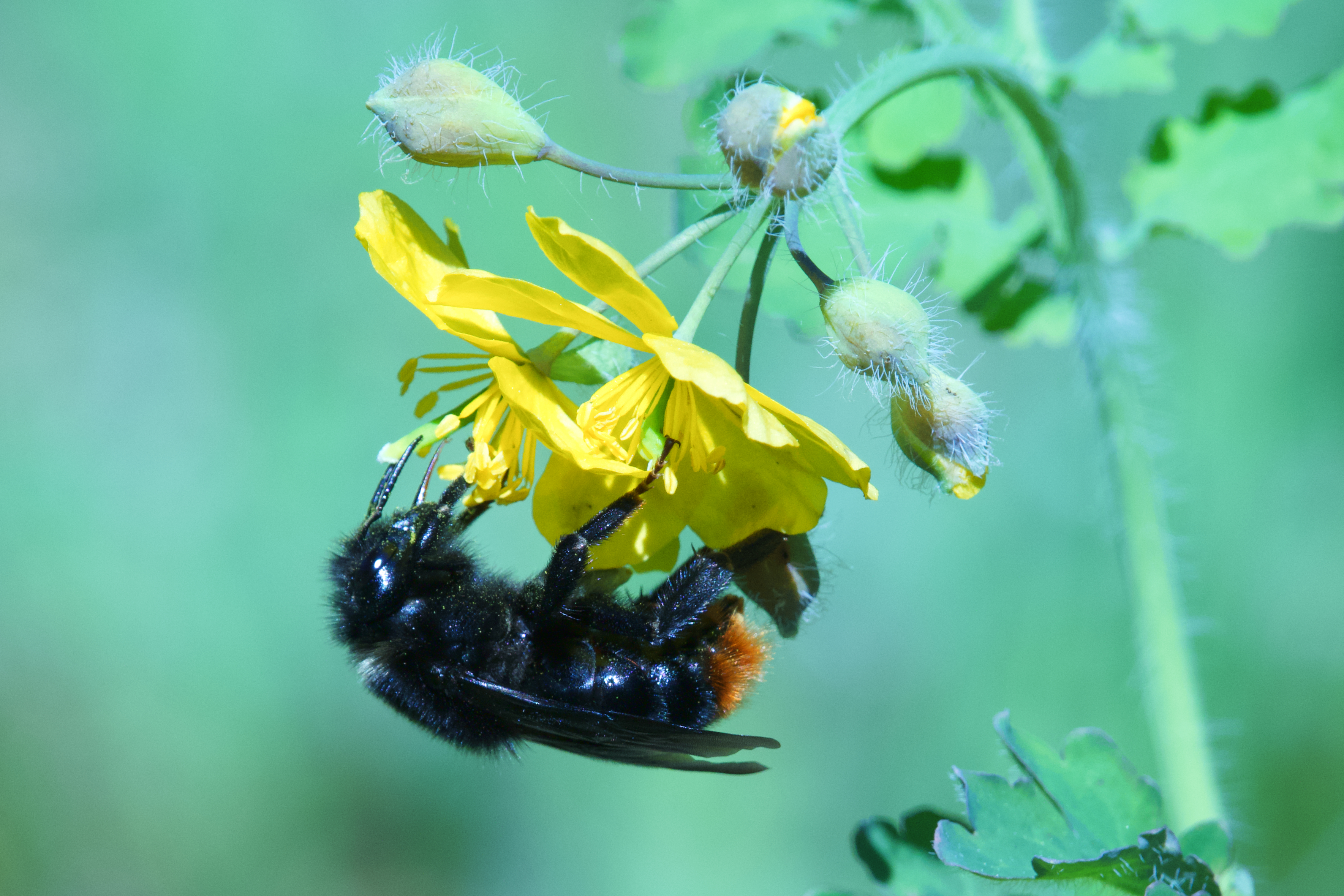 Red-tailed bumblebee collects nectar in Jägaråsen nature reserve in Kungsör municipality, in Västmanland region.